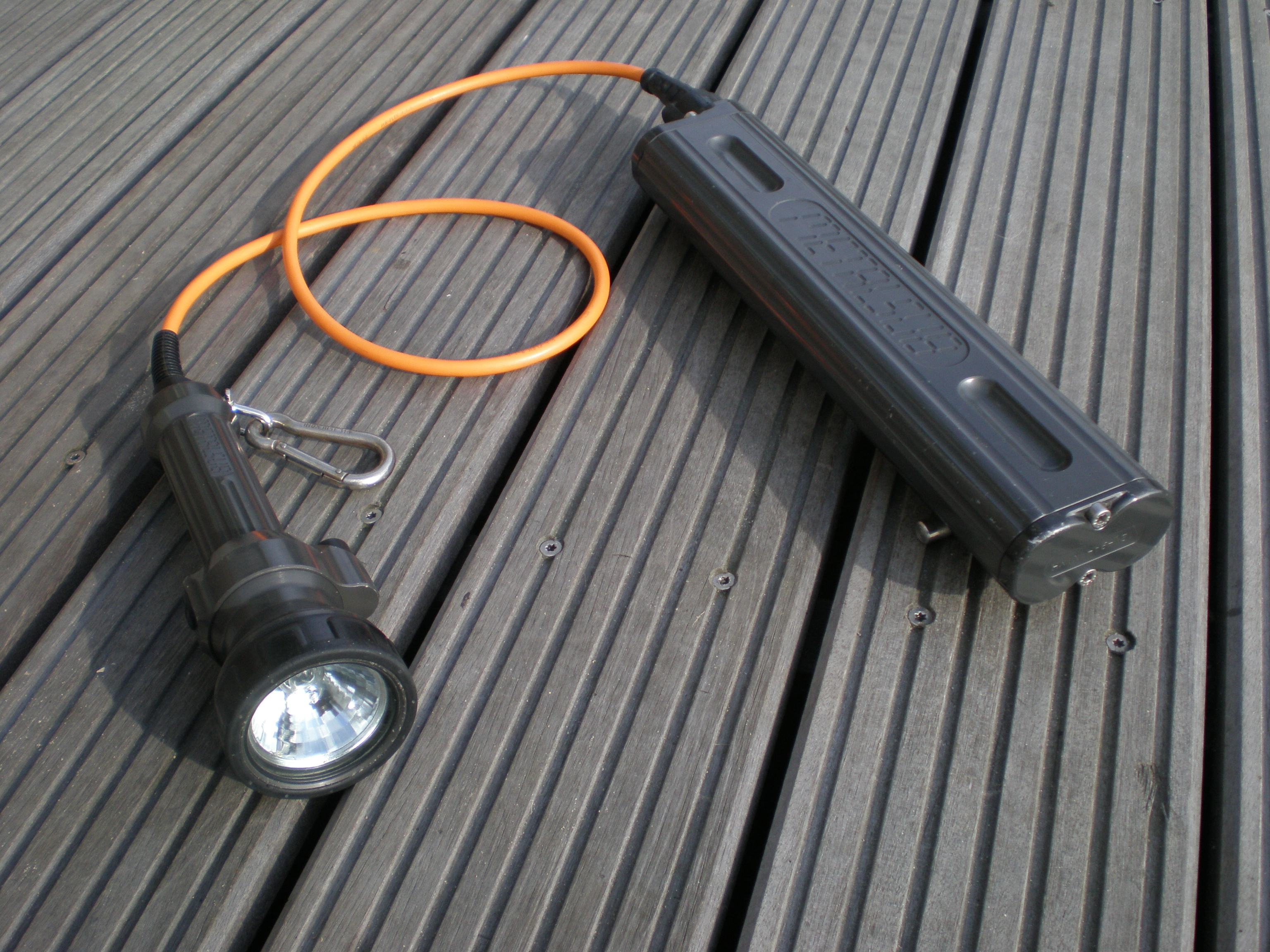 A Metalsub cable diving torch